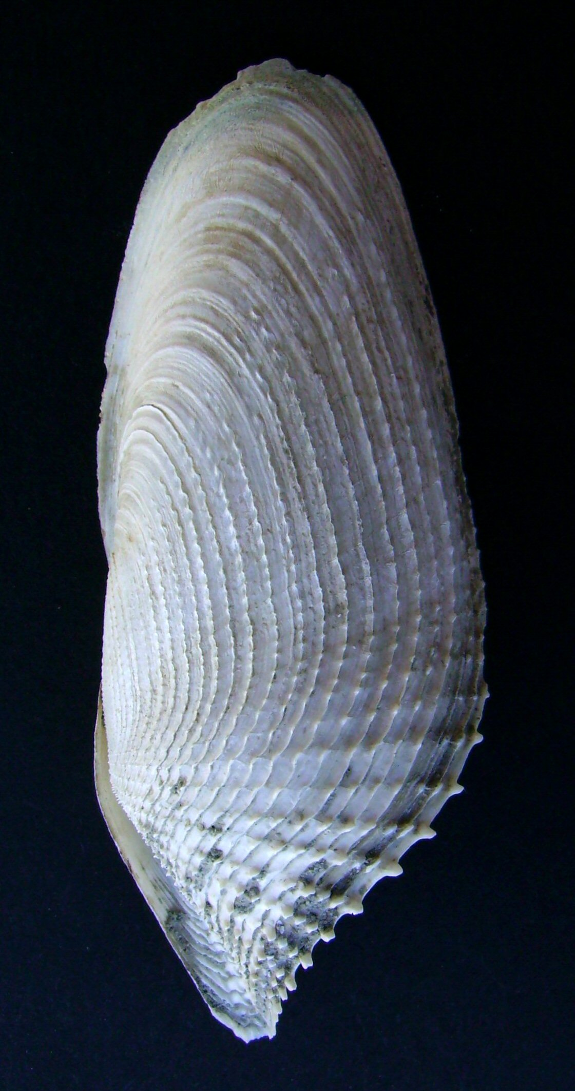 Barnea similis from Browns Bay, Auckland, New Zealand. This work has been released into the public domain by its author, Graham Bould. This applies worldwide.In some countries this may not be legally possible; if so:Graham Bould grants anyone the right to use this work for any purpose, without any conditions, unless such conditions are required by law.